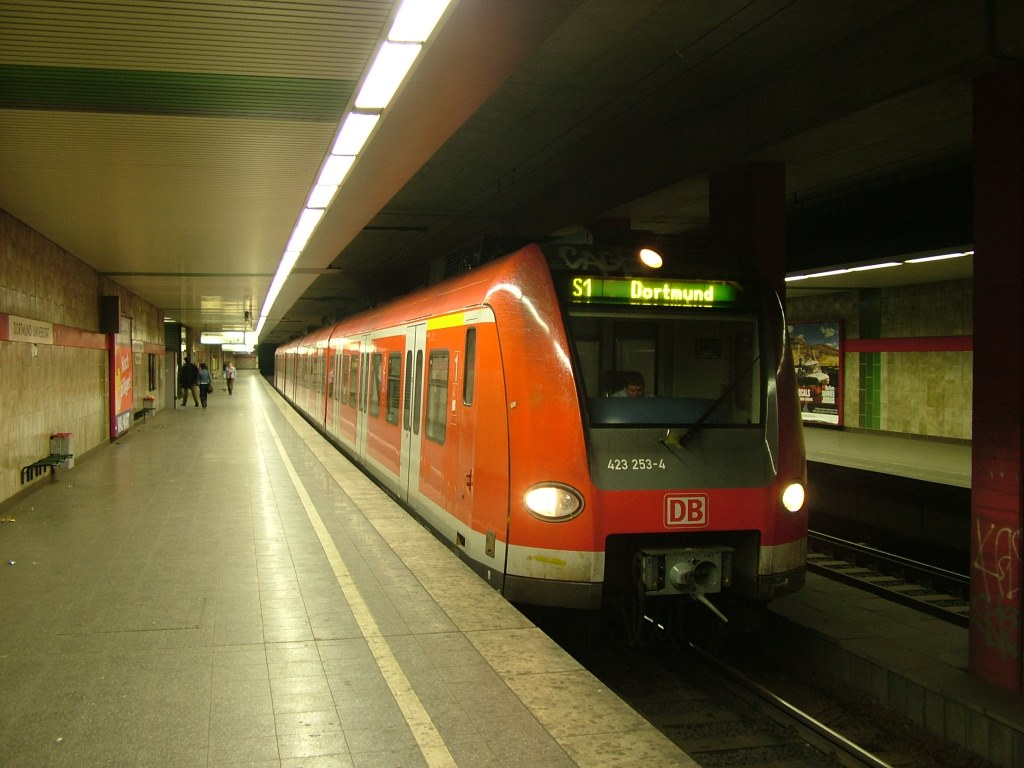 A train on the Line S 1 of the Rhein-Ruhr S-Bahn at Dortmund University stop, 2005-06-04